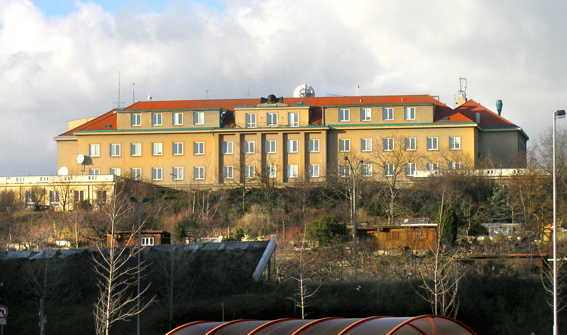 Geophysical Institute, Institute of Atmospheric Physics and part of Astronomical Institute, Prague